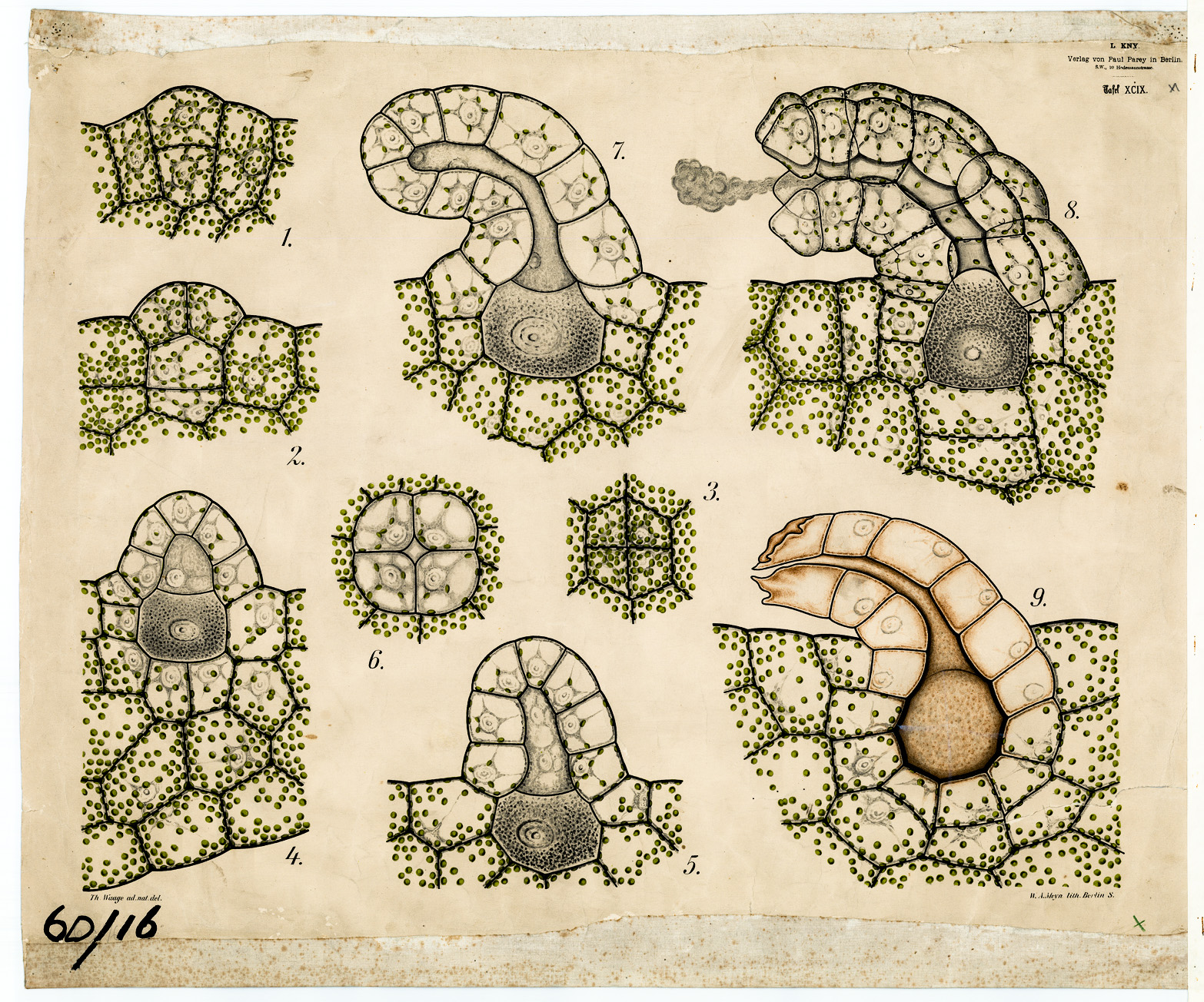 The flask-shaped female organ in lower order plants (mosses for instance)^ containing the ovum or female gamete at its base. I presume this illustration series shows fertilisation occurring. For background and links, please see